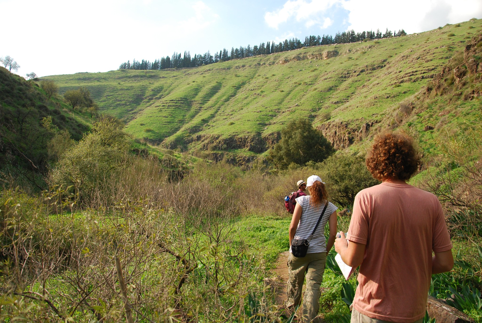 Hike in Tabor River